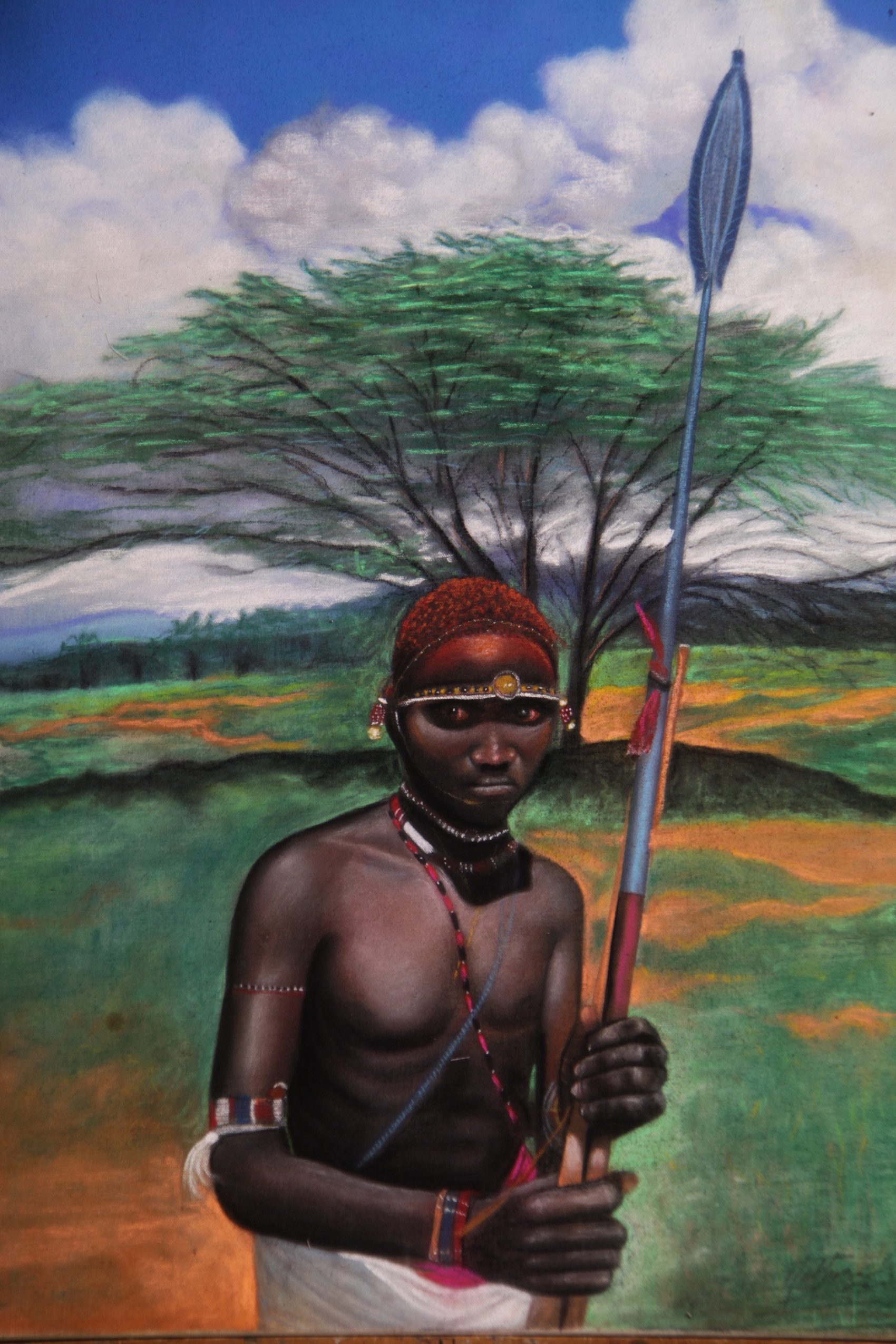 Pastel painting on canvas which contains(15) layers of pure pigments. including makers, felt pens ,soft and hard pastel pencils, inks to create high definition.